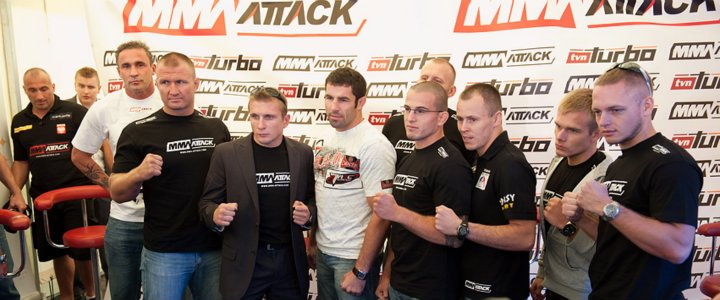 Sikoński Maciej mma attack